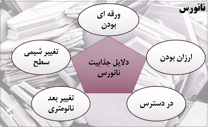 دلایل جذابیت نانورس